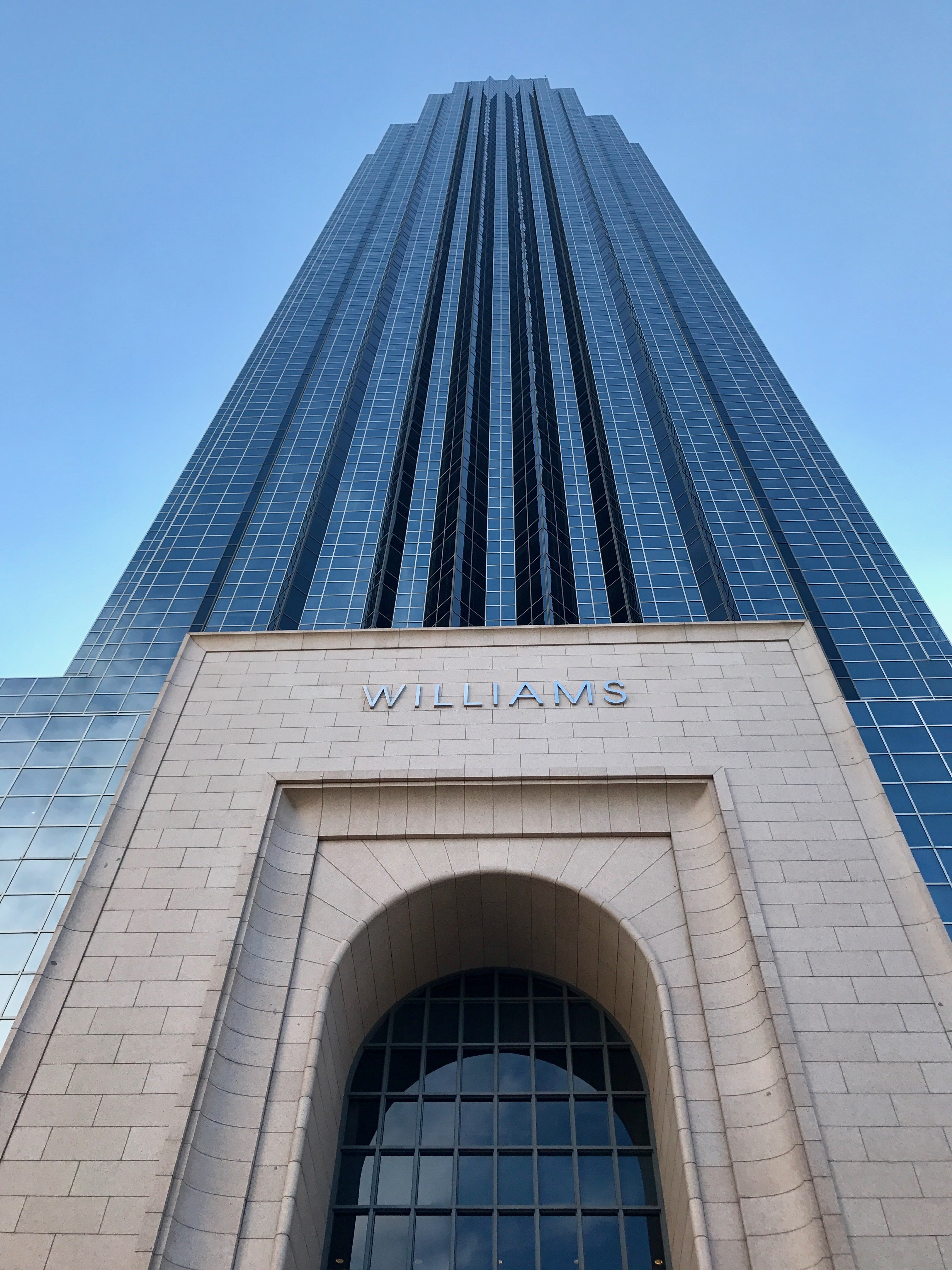 Front of the Williams Tower